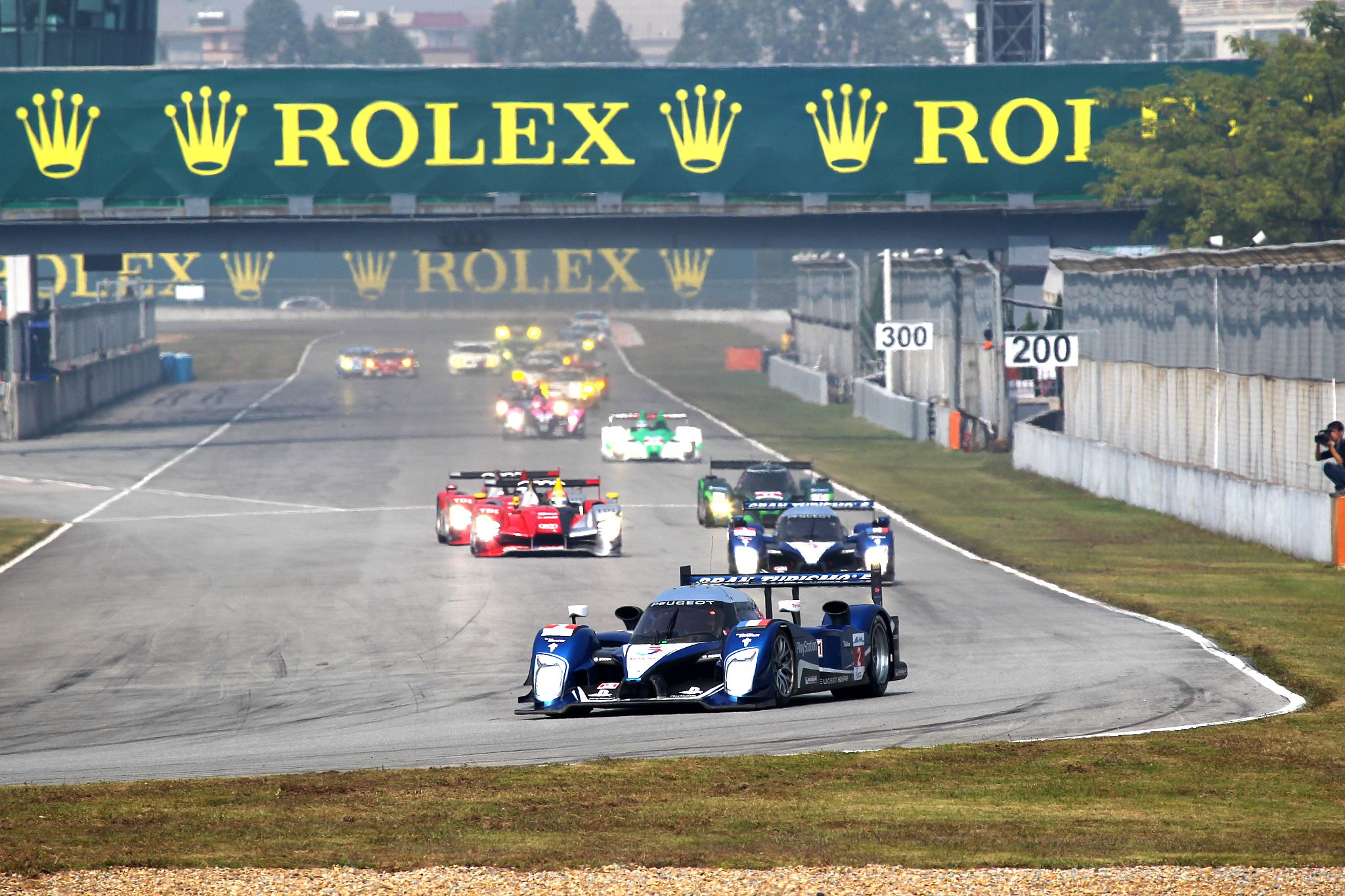 2010 Intercontinental Le Mans Cup - 1000km of Zhuhai race start. Peugeot no. 1 leads into turn 1.